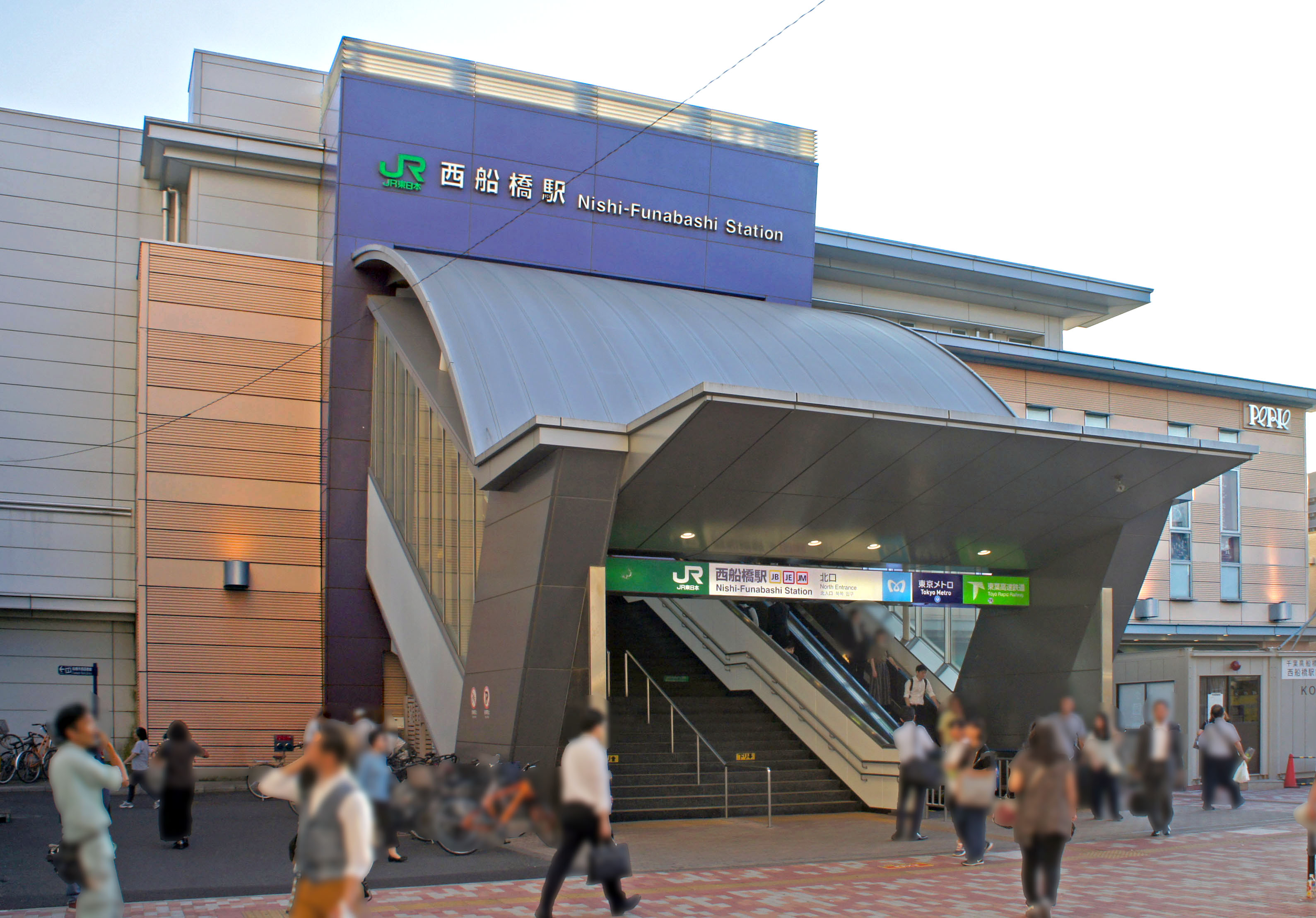 North Exit of Nishi-Funabashi Station